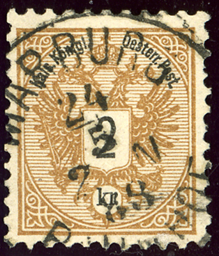 Austrian KK stamp, 2 kreuzer issue 1883, cancelled MARBURG BAHNHOF (Styria) in 1888, now Maribor (Slovenia).